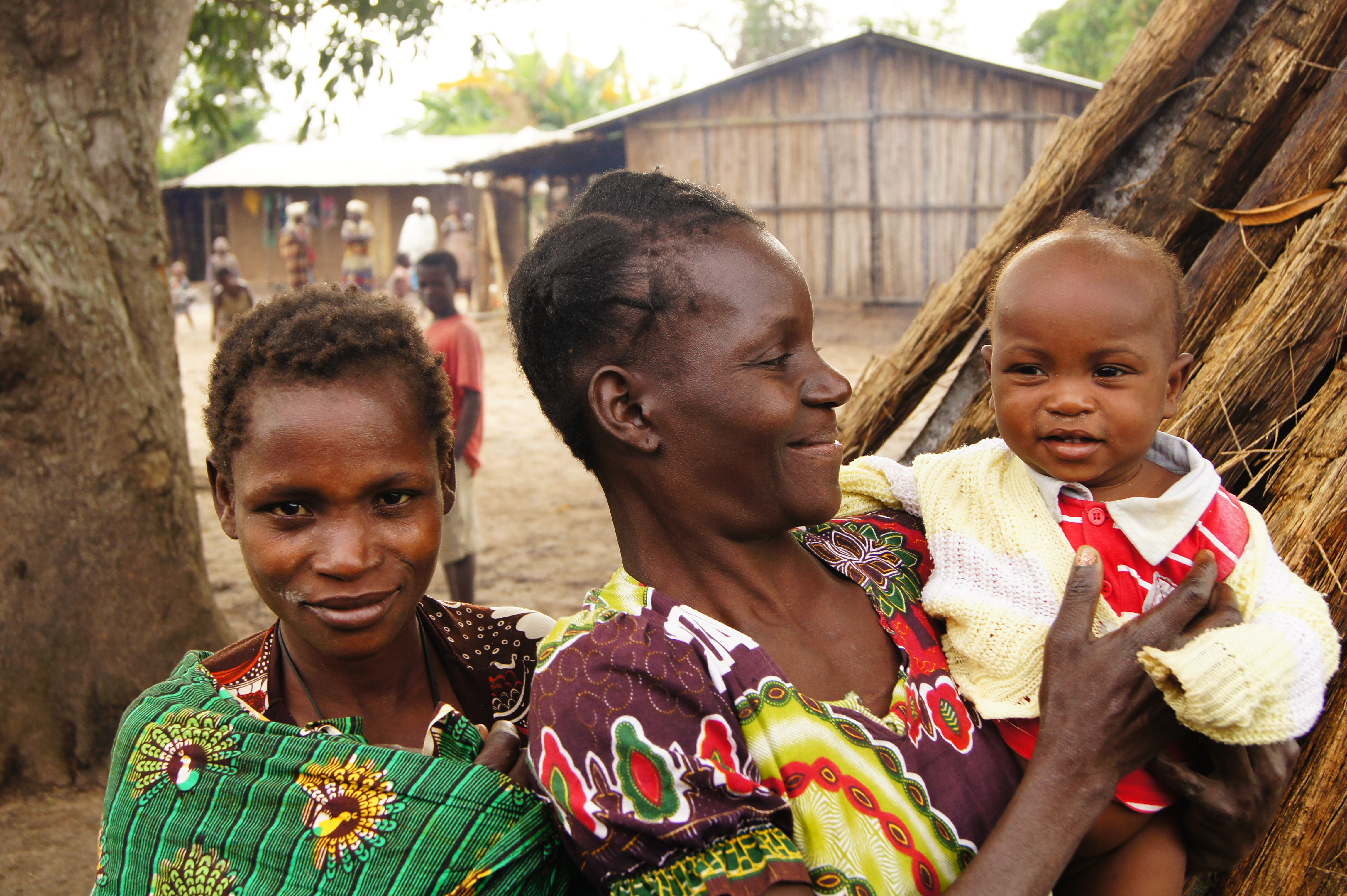 This is an image of Cultural Fashion or Adornment from Mozambique